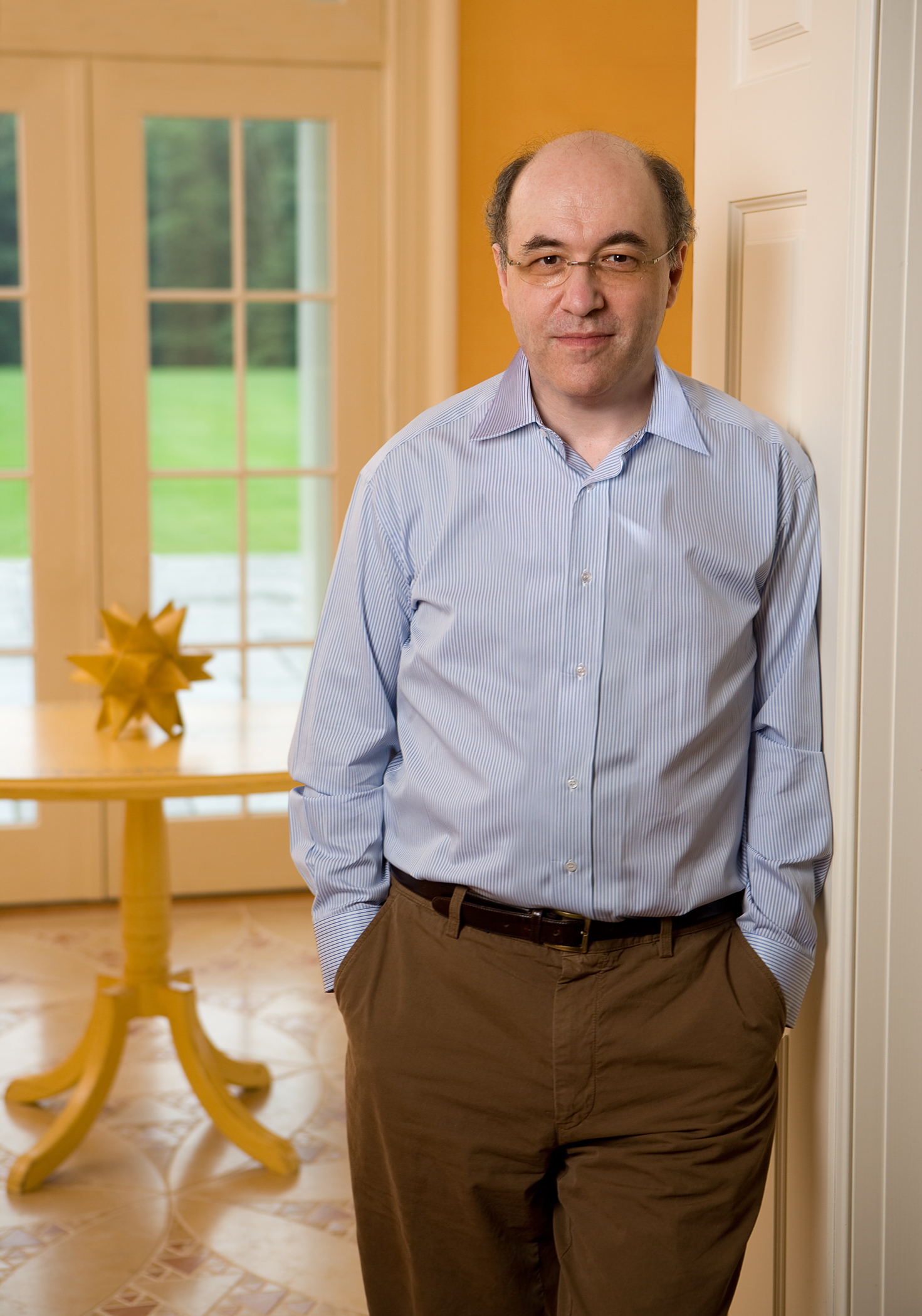 Publicity photo of Stephen Wolfram.